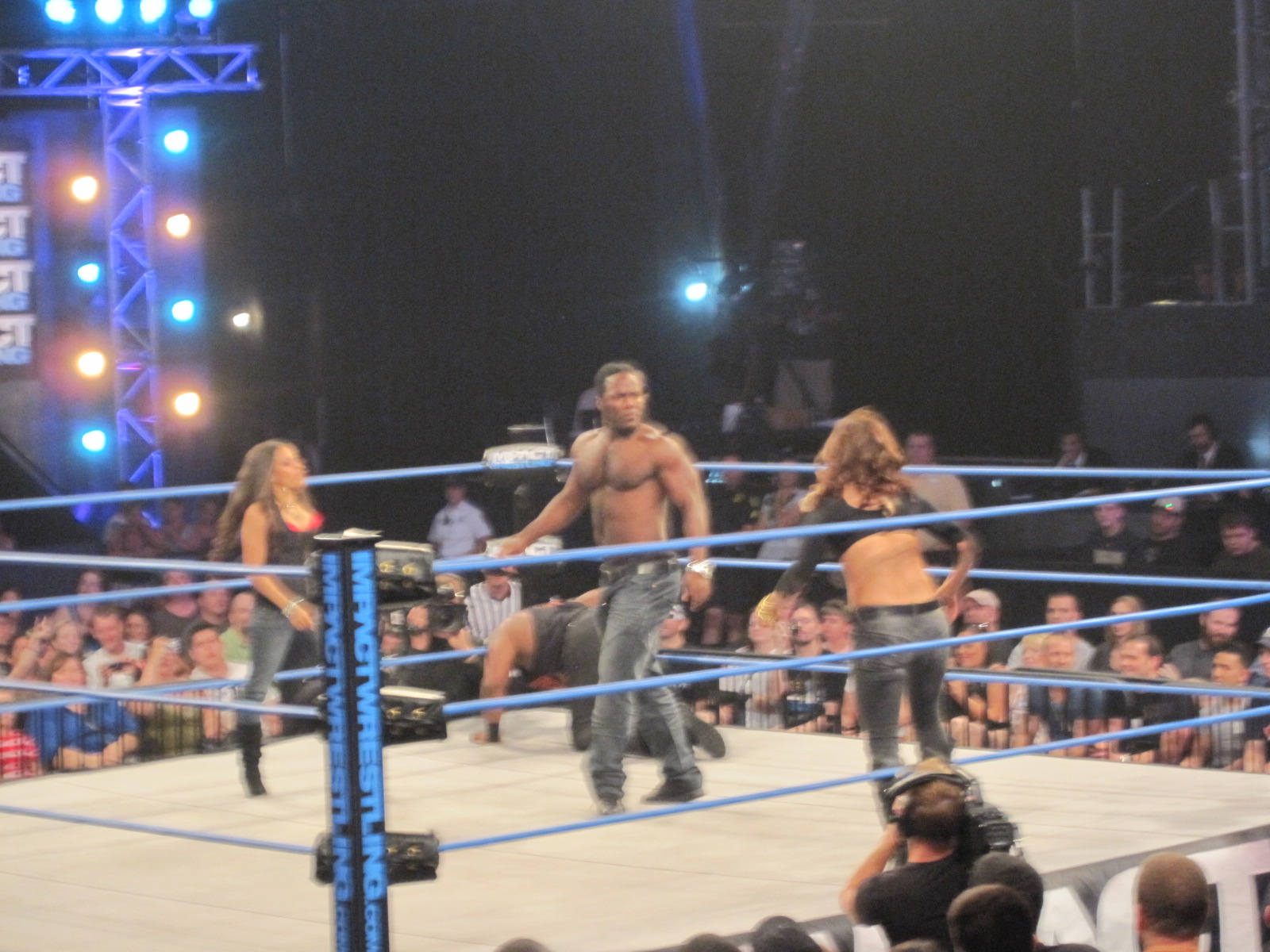 Impact Wrestling Taping. Monday, June 13, 2011 to air Thursday, June 16, 2011